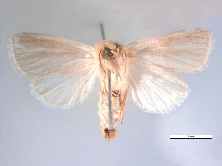 Sesemia inferens ventral view Bubia, PNG, Oct.1968, C.S. Li, reared from Rice stem.